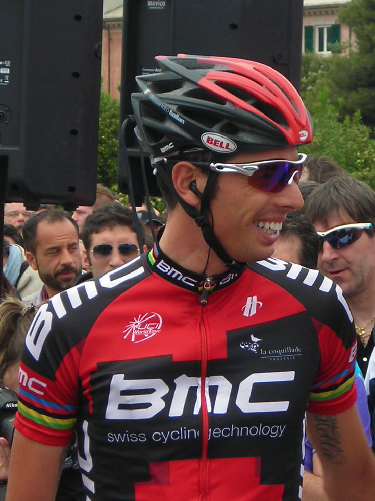 Alessandro Ballan in Savona, start of the 13th stage of 2012 Giro d'Italia